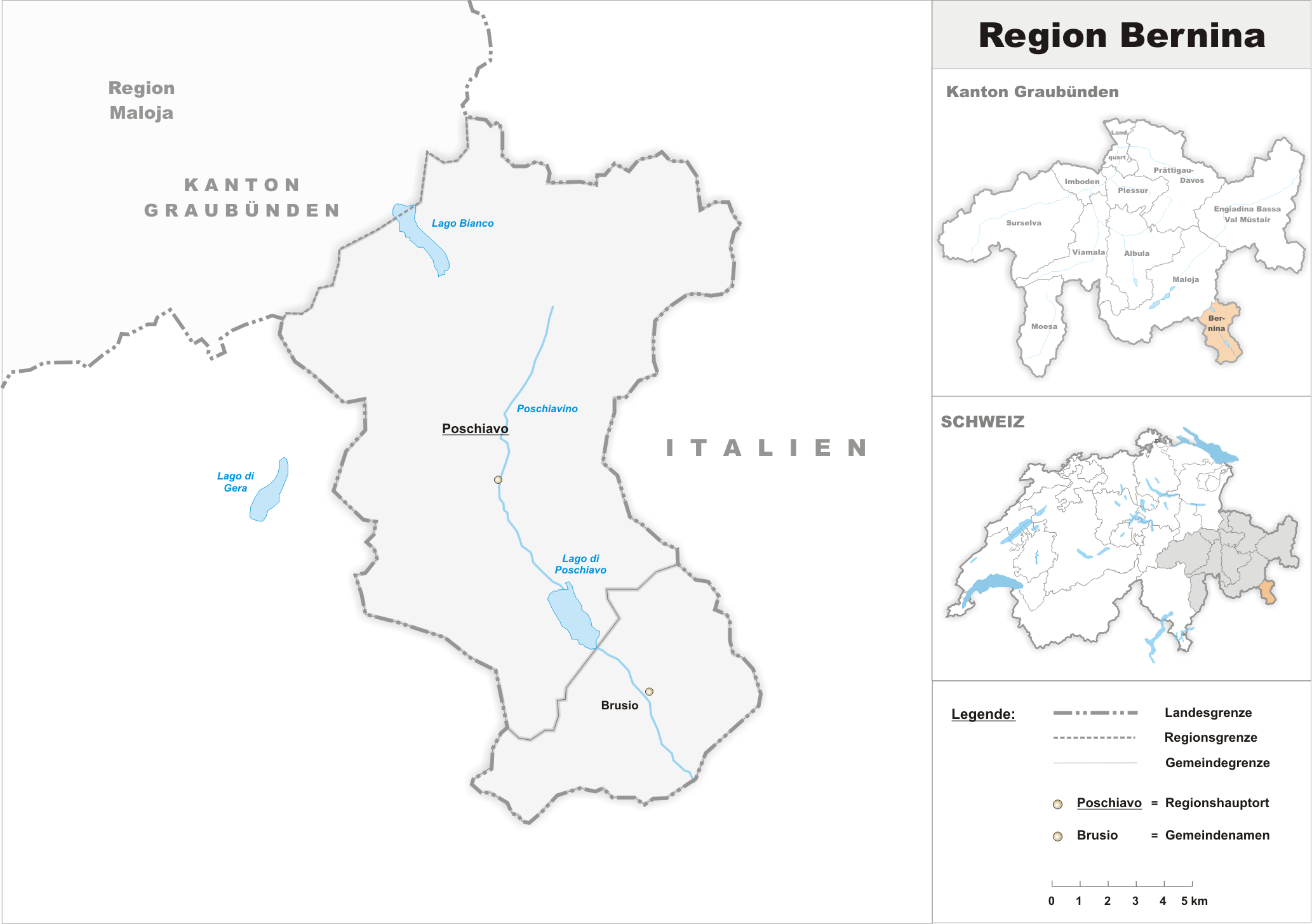 Municipalities in the district of Bernina